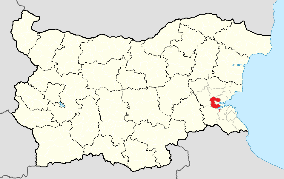 Location map of Kameno Municipality within Bulgaria and Burgas Province Equirectangular projection, N/S stretching 130 %. Geographic limits of the map: N: 44.4° N S: 41.1° N W: 22.1° E E: 28.9° E